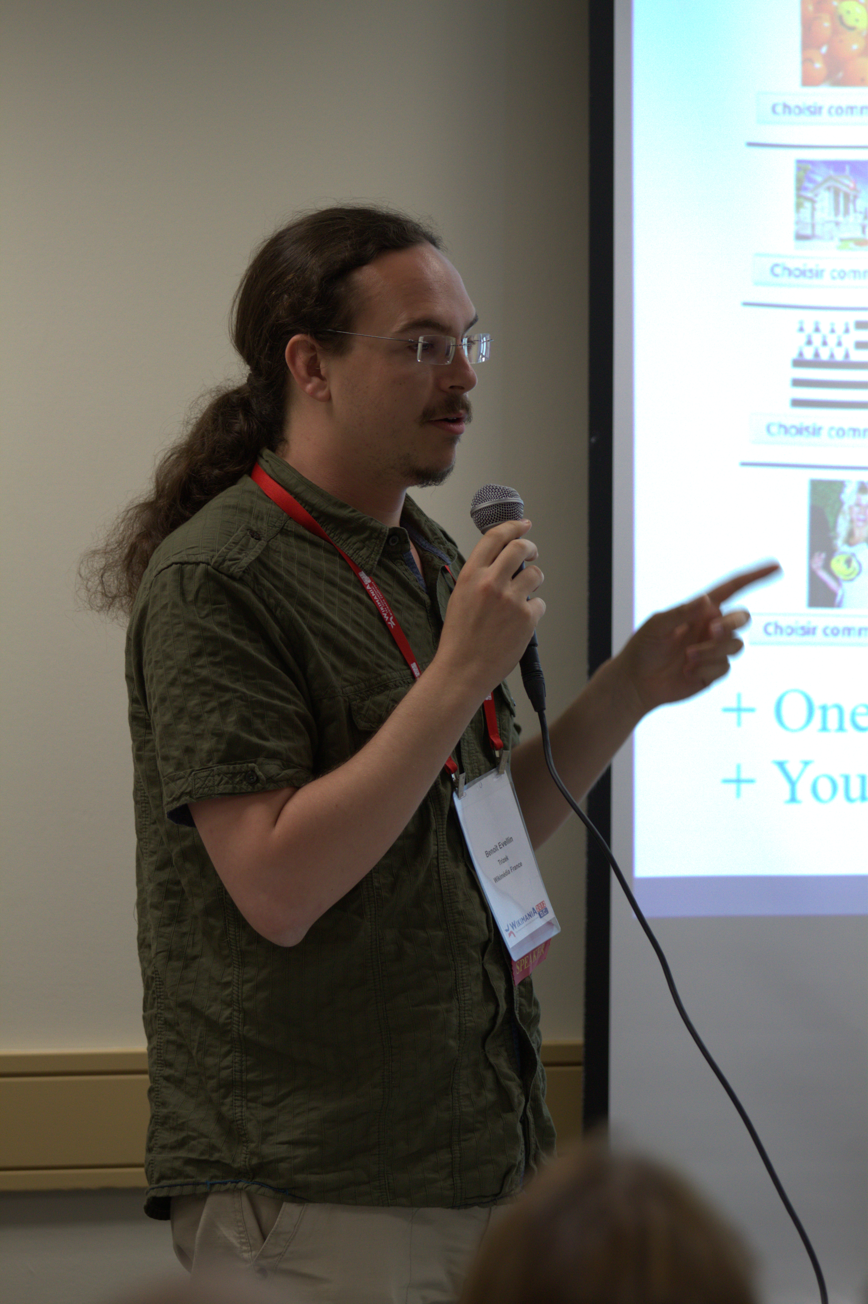 Is my grand ma able to contribute ? - Wikimania 2012, Washington DC